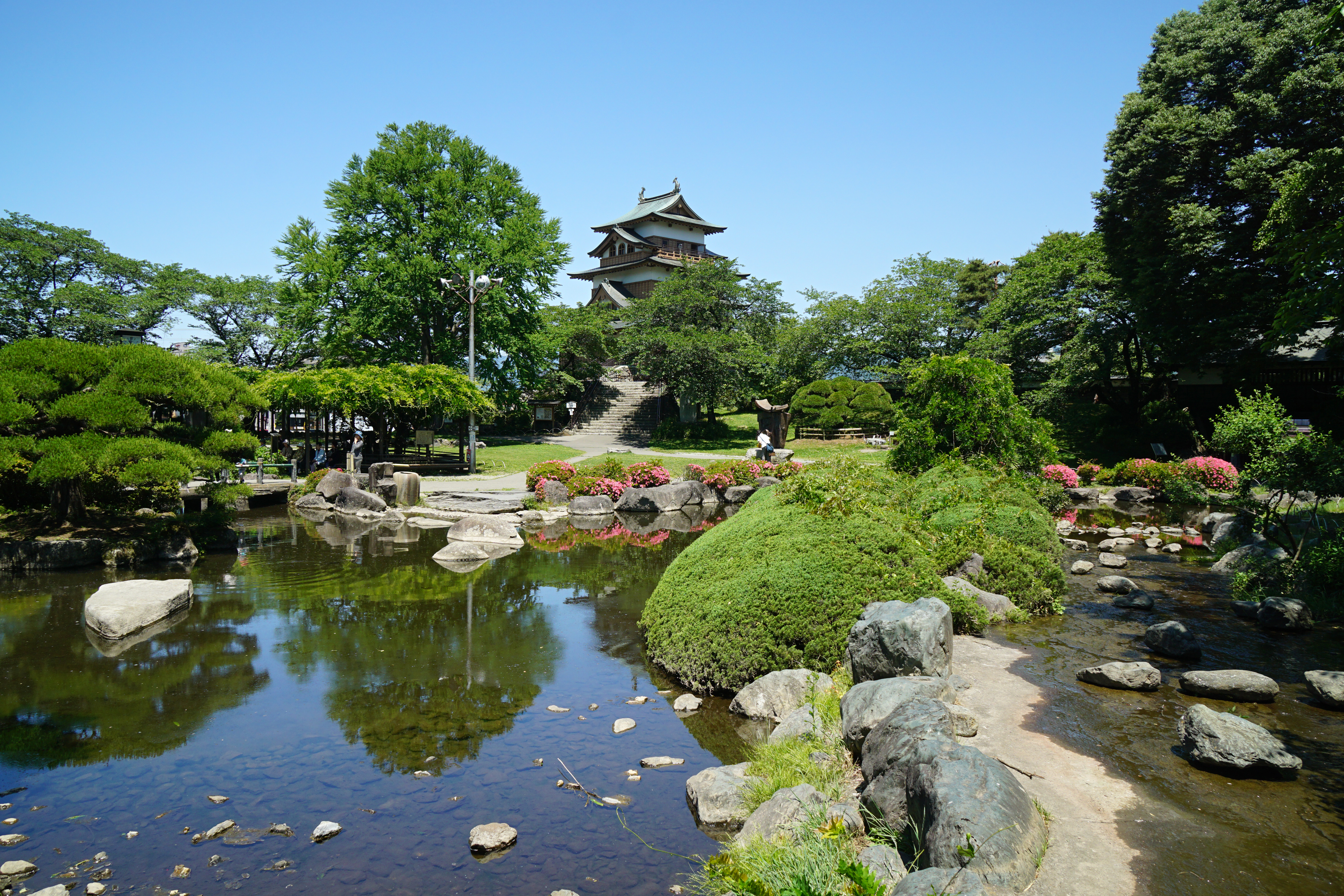 Takashima Castle in Suwa, Nagano prefecture, Japan.